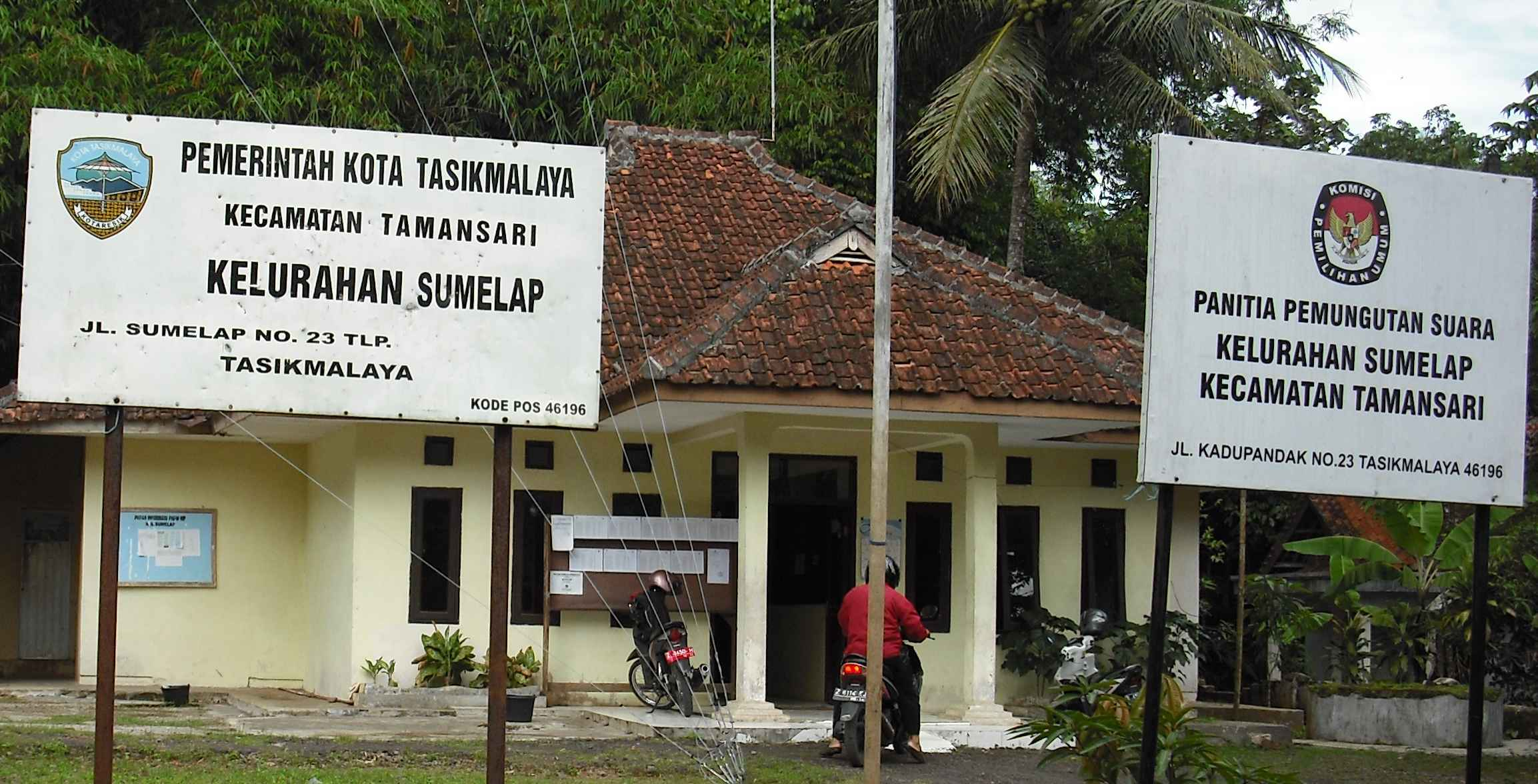 Office Building of Sumelap Subdistrict, Tamansari District, Tasikmalaya City, West Java Province, Indonesia.